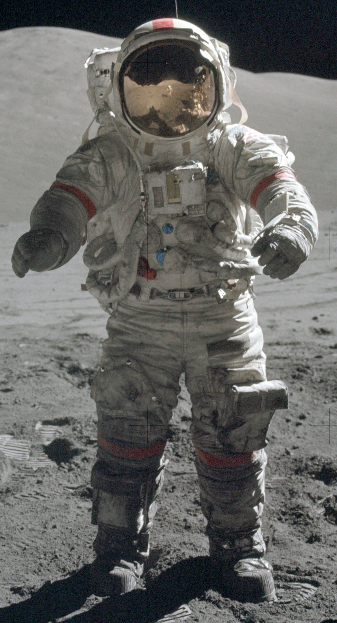 Apollo 17 astronaut Eugene Cernan in the Taurus–Littrow valley.